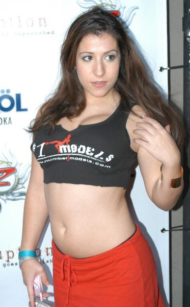 Alexia Milano at Bryn Pryor's Corruption Party, November 11 2006